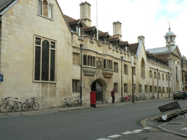 The main entrance to Pembroke College This is the front of the college that stands along Trumpington Street. The building on the left and the section with the entrance is 14th century. The section that continues to the right, up to and including the chapel, is 17th century.